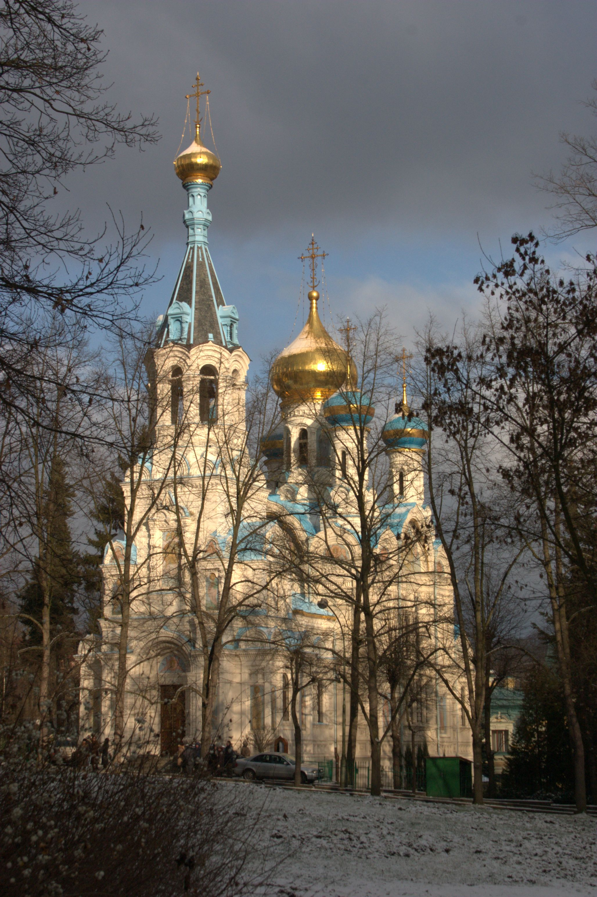 St. Peter and Paul's Orthodox Church in Karlovy Vary